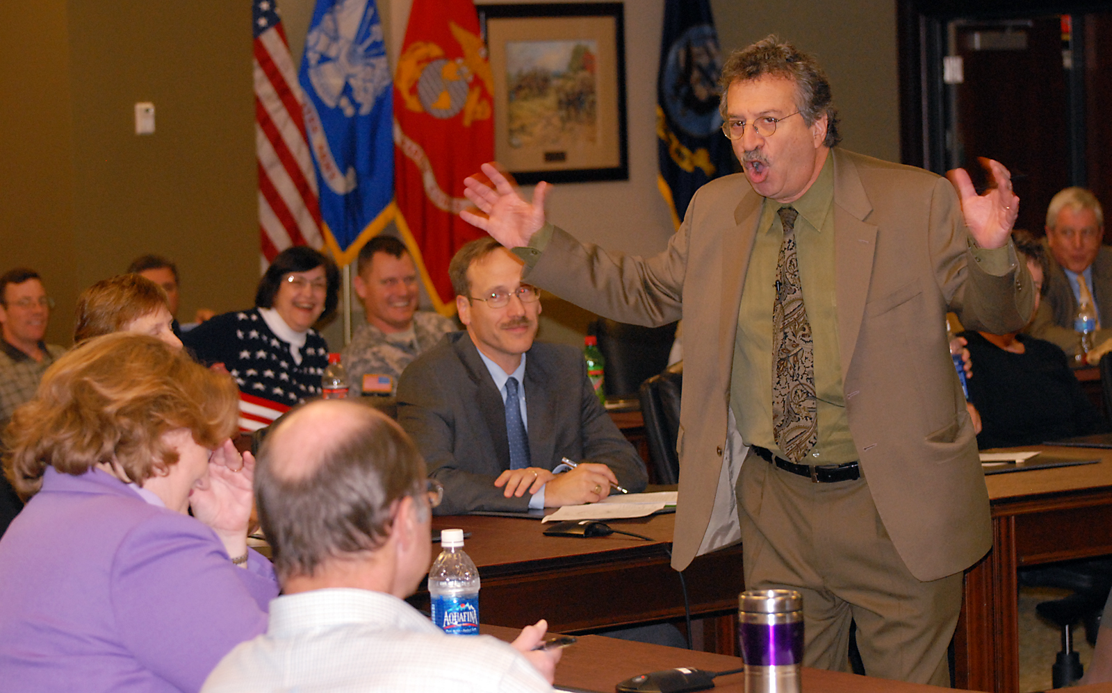 Dr. Robert Kegan, professor of Adult Learning and Professional Development and co-director of the Change Leadership Group at the Harvard University Graduate School of Education, leads his workshop, Personal Learning for Leadership Development: Understanding and Overcoming the "Immunity to Change," as part of Kansas State University's Teaching Scholars program Oct. 7 at the Lewis and Clark Center, Fort Leavenworth, Kan. The graduate-level lecture series supports Command and General Staff College faculty and student development.